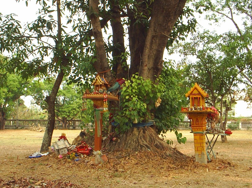 Discarded spirit houses at Wat Nong Bua, Ubon Ratchathani, Thailand. Picture taken by User:Markalexander.